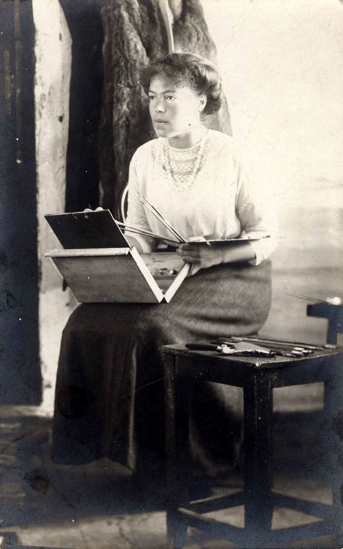 Grand Duchess Olga Alexandrovna at the easel. Photograph.